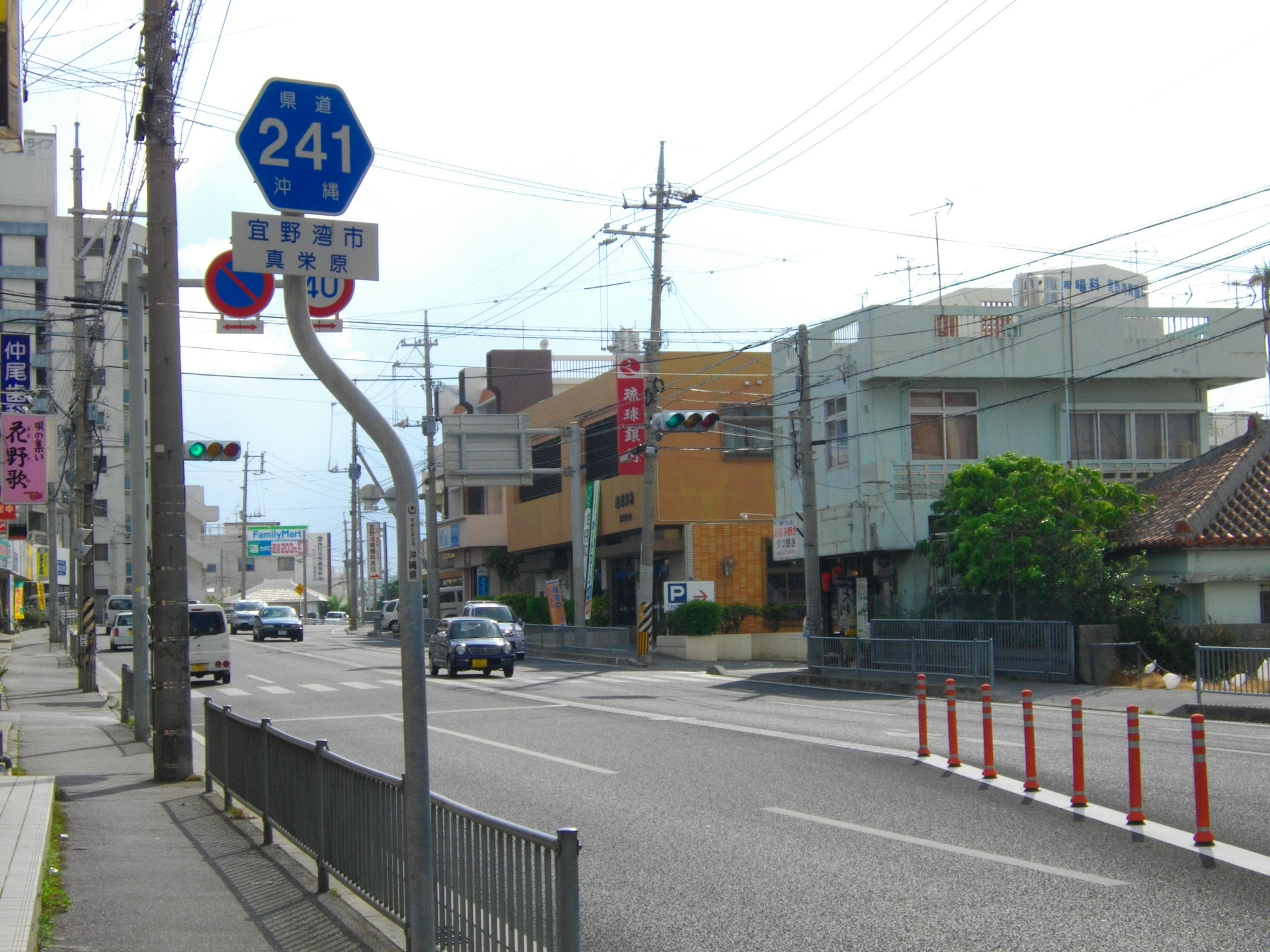 Okinawa prefectural road route 241